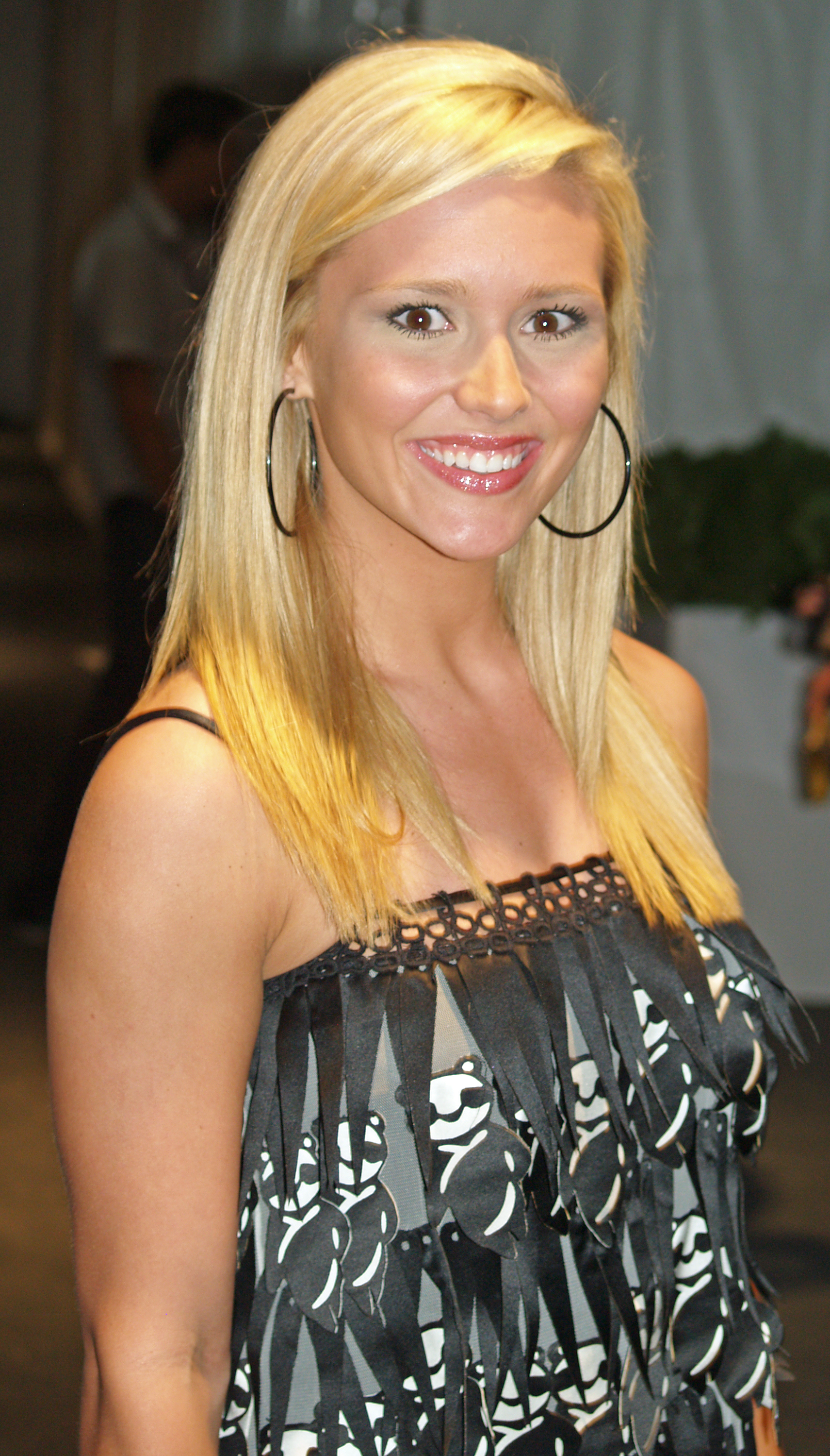 Stevi Perry outside the Vivenne Tam show at the Spring 2009 collection Mercedes-Benz Fashion Week (aka New York Fashion Week)